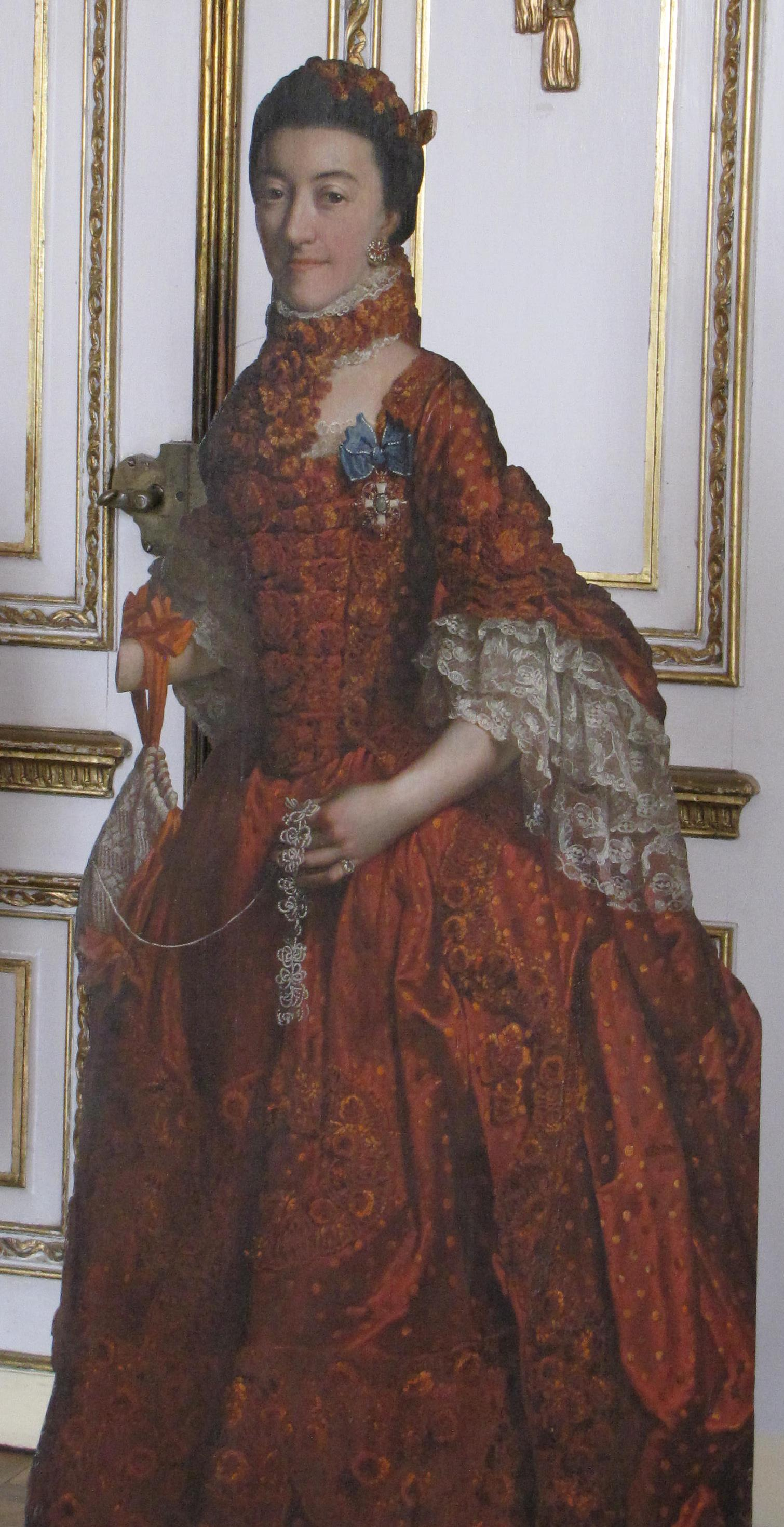 Georg David Matthieu: Figurentafeln Schloss Ludwigslust, Prinzessin Charlotte Sophie von Sachsen-Coburg-Saalfeld, wife of Erbprinz Ludwig